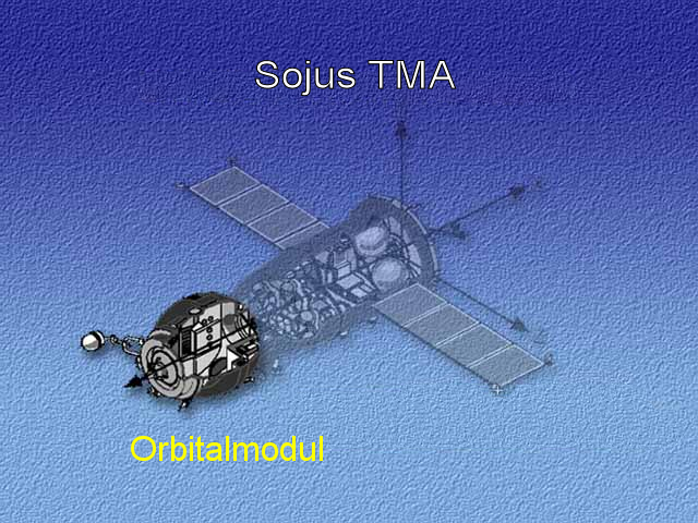 This graphic highlights the Soyuz spacecraft's Orbital Module (with german labeling).